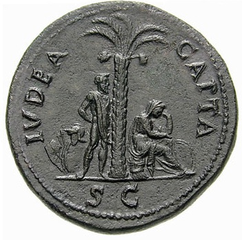 Reverse of a sestertius of Vespasian, depicting "Judaea Capta" issue. Struck 71 AD. Female personification of the Jewish nation in attitude of mourning, seated left beneath palm tree; to right, captive Jew with hands tied behind back standing left; captured weapons behind.